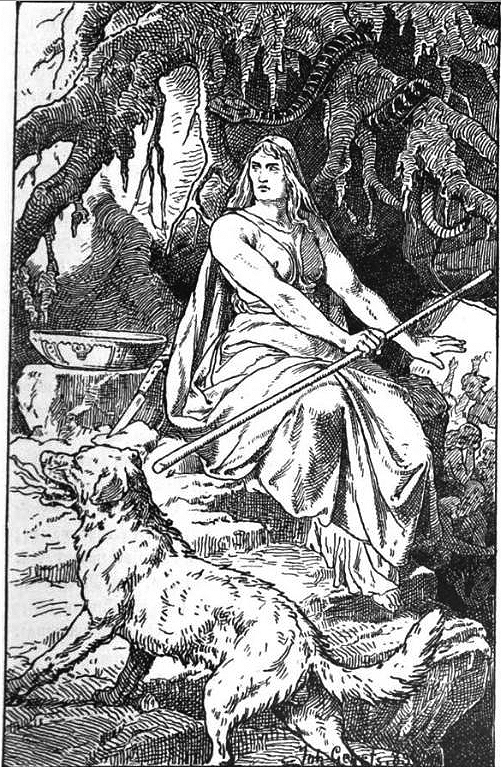 "Hel" (1889) by Johannes Gehrts. Hel, the female being, holding a staff, and flanked by what is presumably the hound Garmr - both atop a cliff's ledge. In the background, a serpent crawls around among roots, a basin sits, and partially shadowed figures appear to be in movement below the cliff.